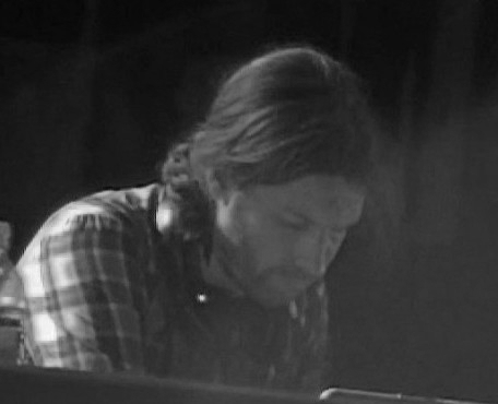 Aphex Twin in Turin, Italy.